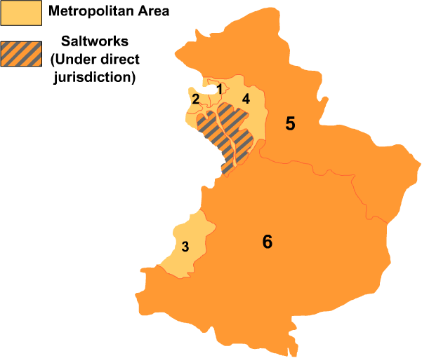 Map of Yingkou in Liaoning province